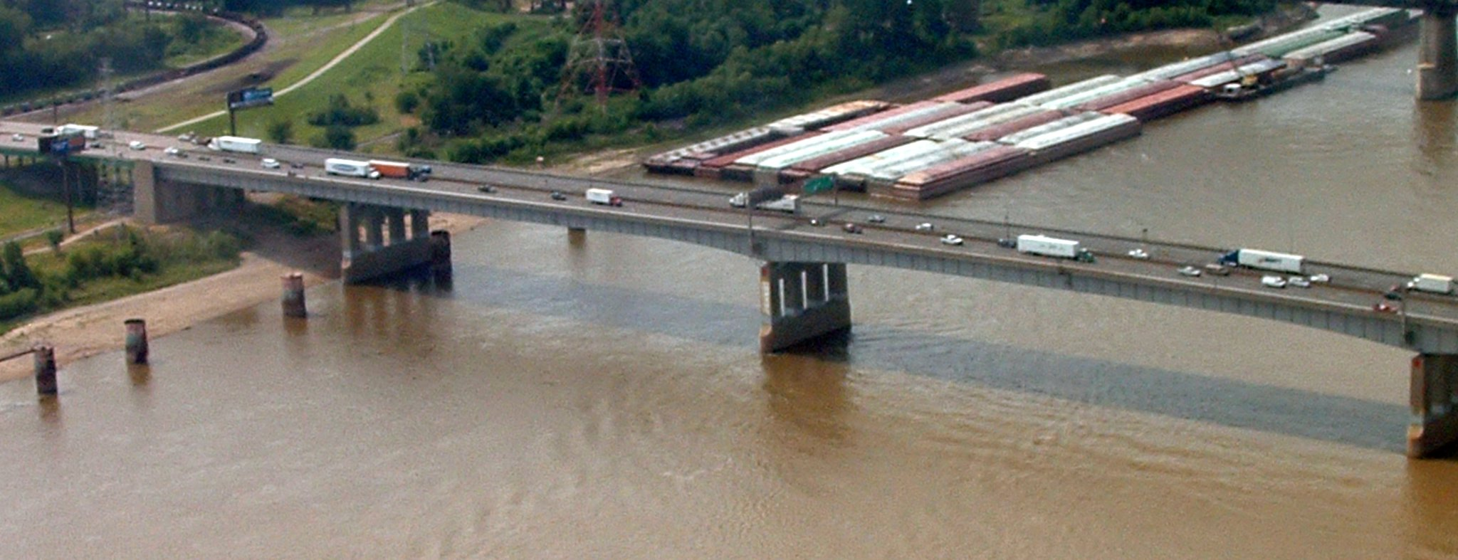 The Poplar Street Bridge, a major highway bridge over the Mississippi River near St. Louis, Missouri. Photographed June 15, 2006 from the Jefferson National Expansion Memorial, St. Louis, Missouri by Kelly Martin.